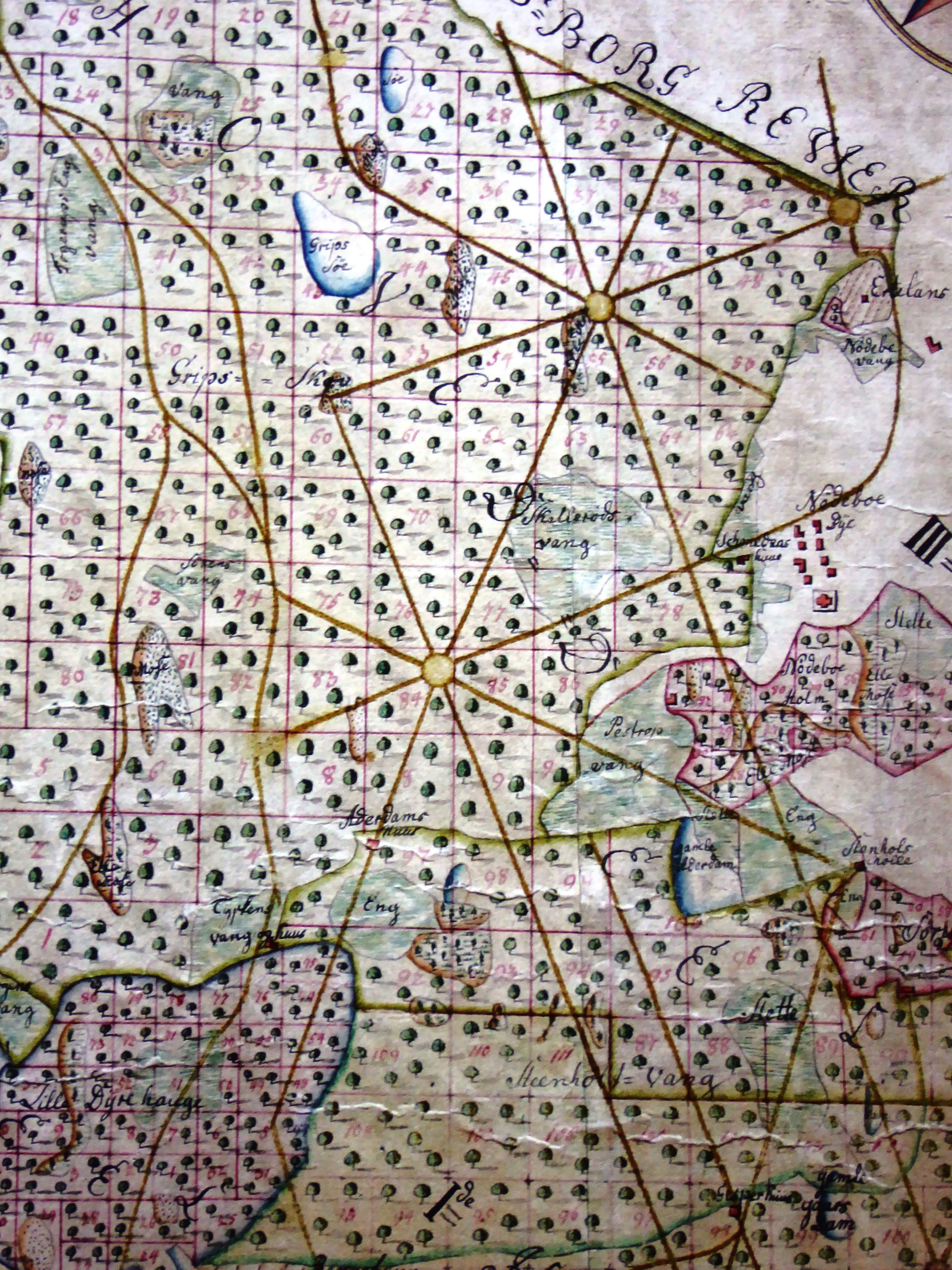 Udsnit af Det Gram-Langenske skovkort over Frederiksborg Revir, sydlige del af Gribskov. Righsarkivet.